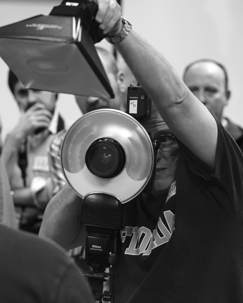 David Hobby using an Orbis Ring Flash adapter for fill. Subject Sean McCormack lit using LumiQuest Softbox III above with a bare SB800 strafed across background wall using a VAL. This may be a setup shot for: Strobist User